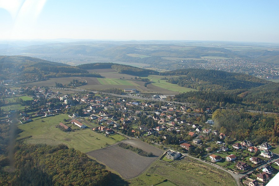 Jíloviště village in Prague-West district, Central Bohemia region, Czech Republic